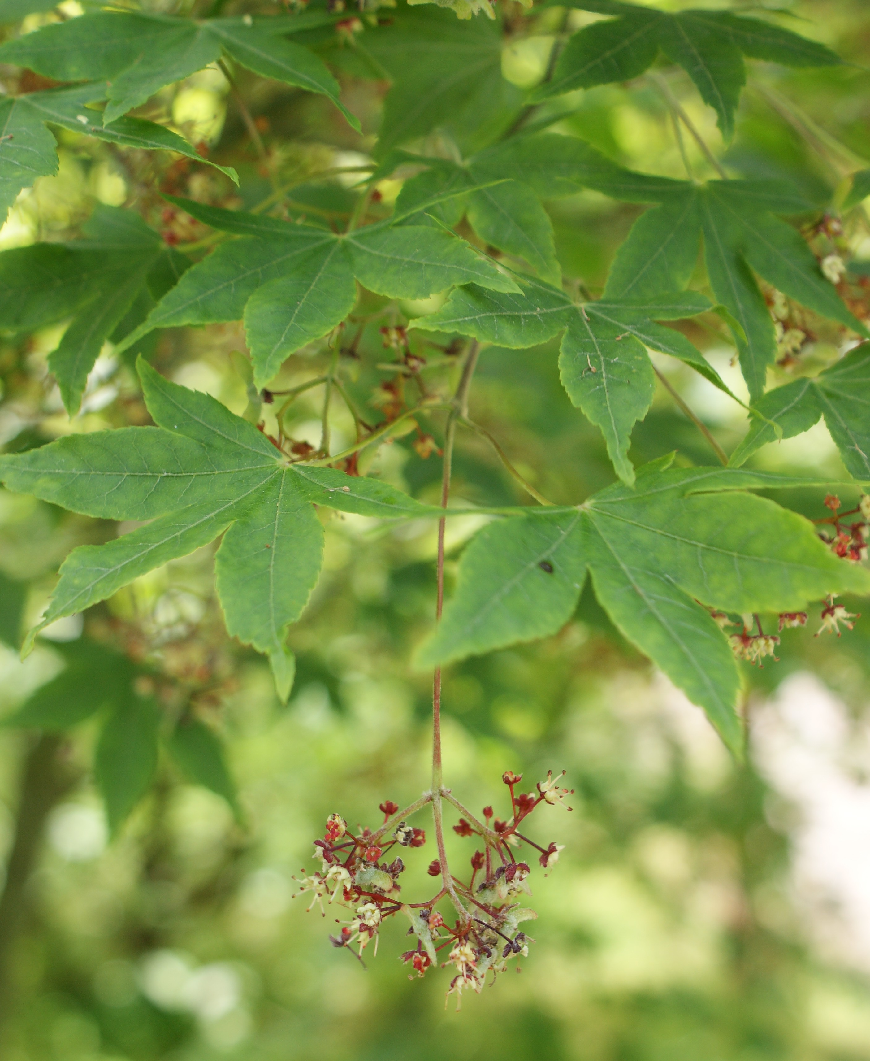 Acer pubipalmatum. Glinna Arboretum near Szczecin (NW Poland)